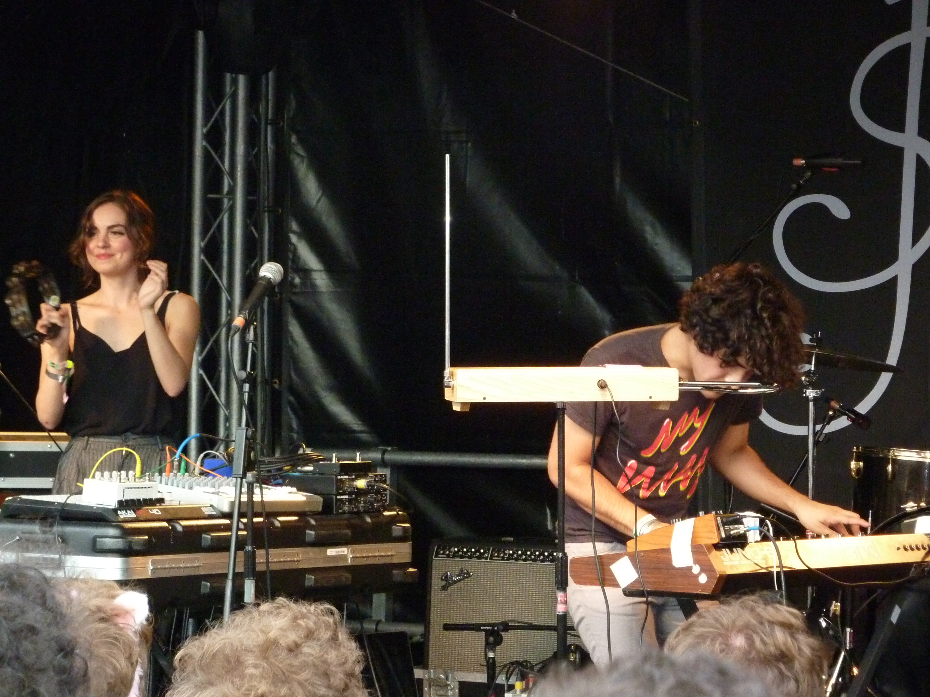 Neon Indian, performing at Bestival 2010, held on the Isle of Wight.